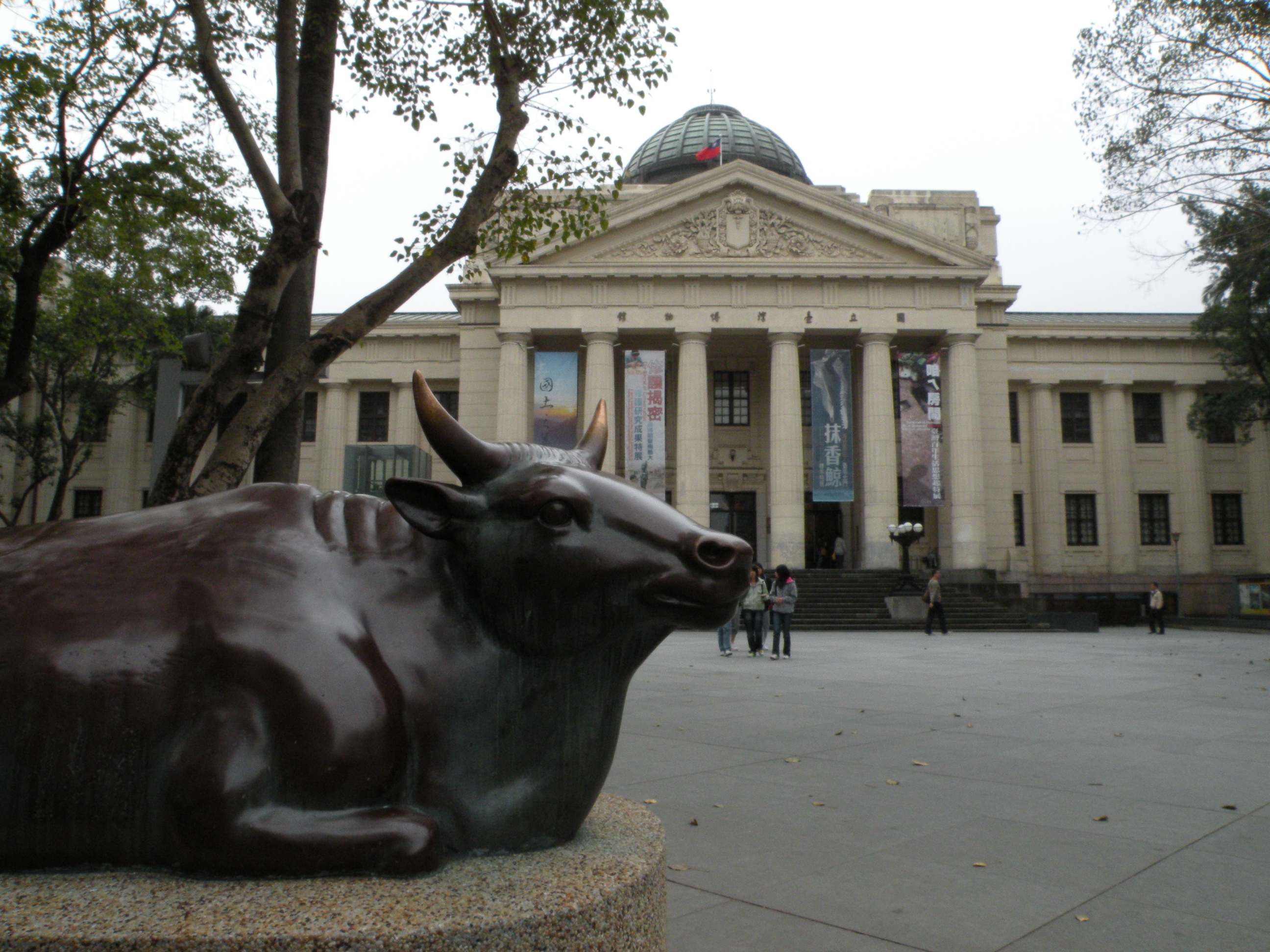 Copper cattle of Taiwan Jinja, shito shrine.